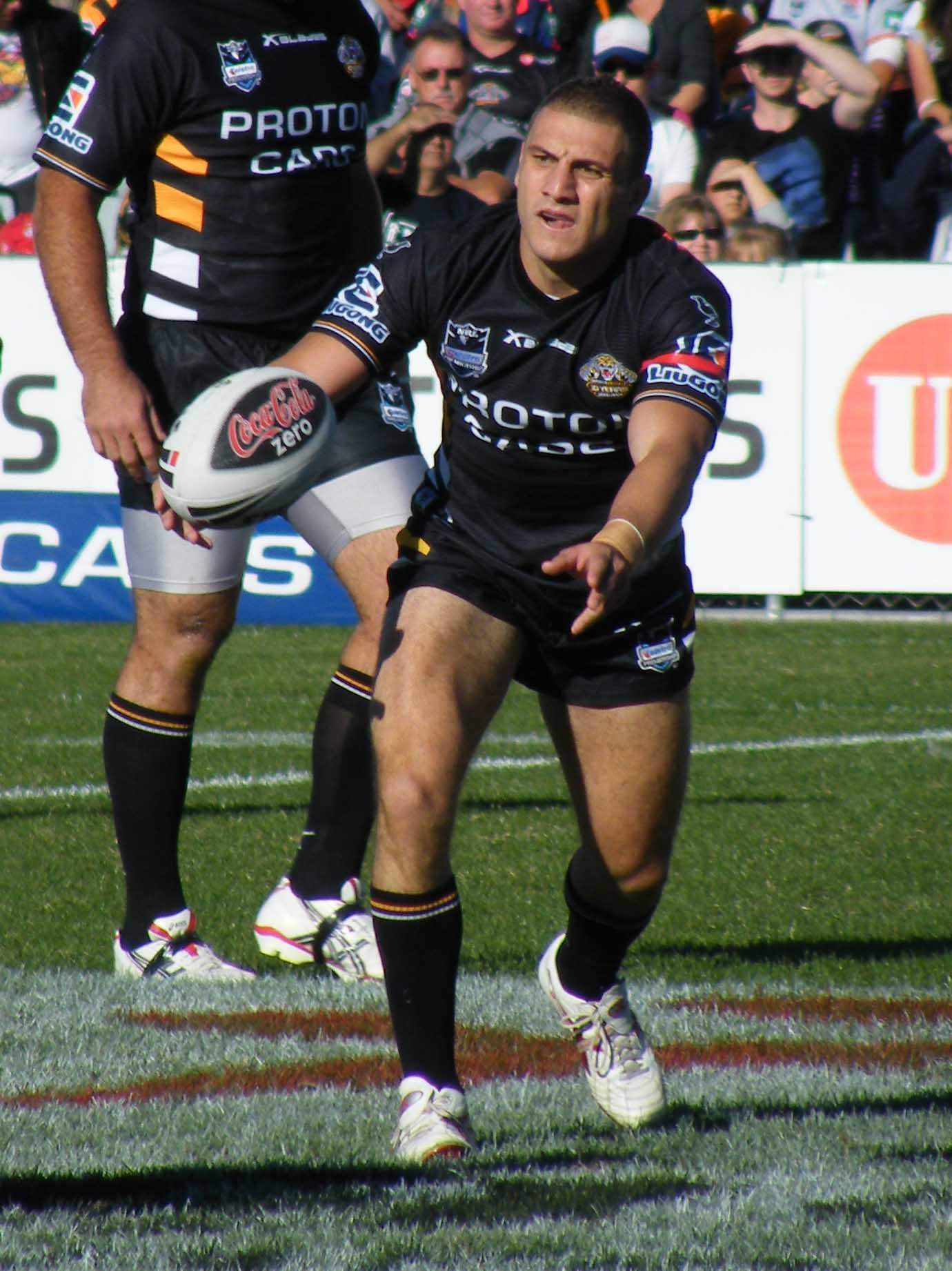 Robbie Farah of the Wests Tigers